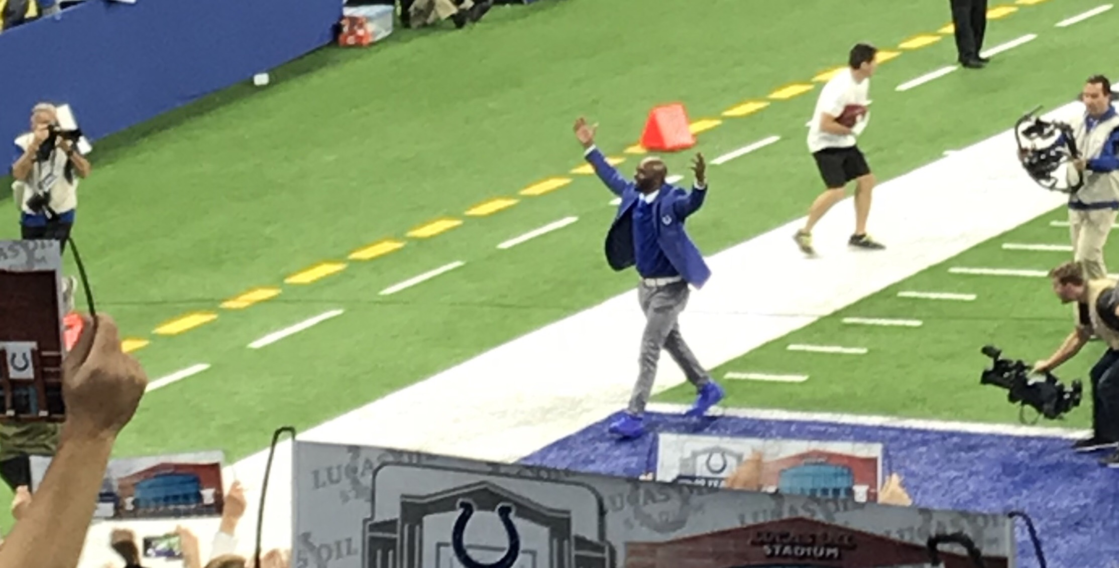 Former WR Reggie Wayne in 2018, after being inducted into then Indianapolis Colts’ Ring of Honor.